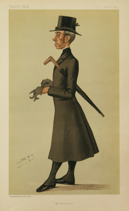 Caricature of Anthony Wilson Thorold, Bishop of Rochester.